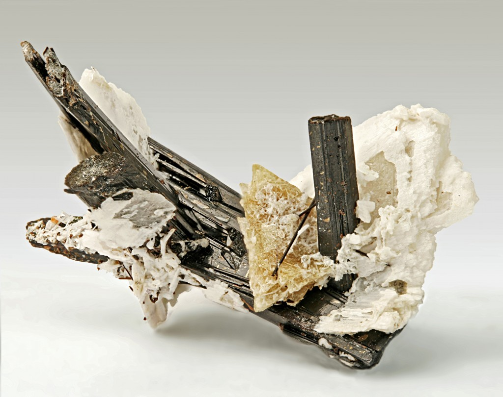 Genthelvite, Aegirine, Albite Locality: Poudrette quarry (Demix quarry; Uni-Mix quarry; Desourdy quarry; Carrière Mont Saint-Hilaire), Mont Saint-Hilaire, Rouville RCM, Montérégie, Québec, Canada The yellow genthelvite is ~ 8-9 mm on edge, Via Daniel C. MOB coll. The black "sticks" are broken aegirine. The white stuff is mostly tiny albite blades (with some tan microlcline peeking through). There are also small dark red/brown octahedra of pyrochlore and blebs of rhodochrosite but they are too small to be distinct at this scale.